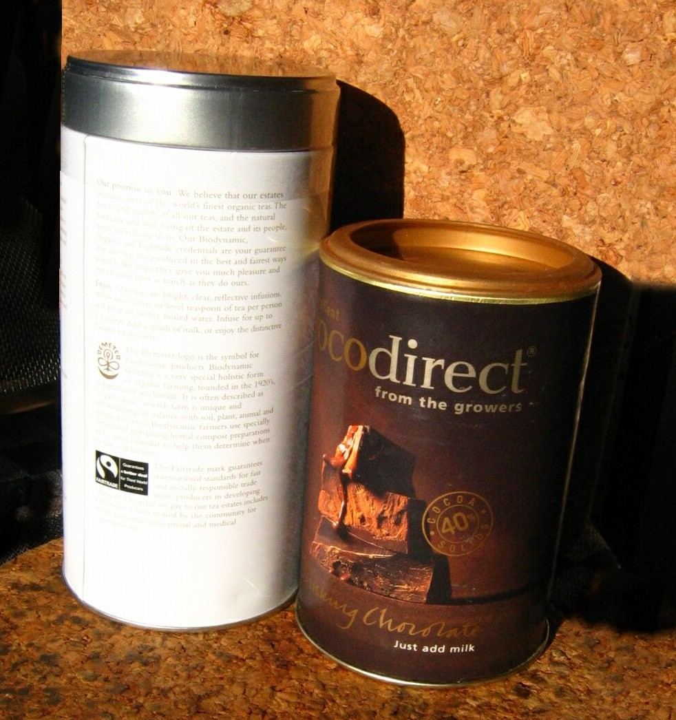 Fair trade tea (left) and cocoa (right) purchased in the UK. Note the fair trade symbol on the can to the left.